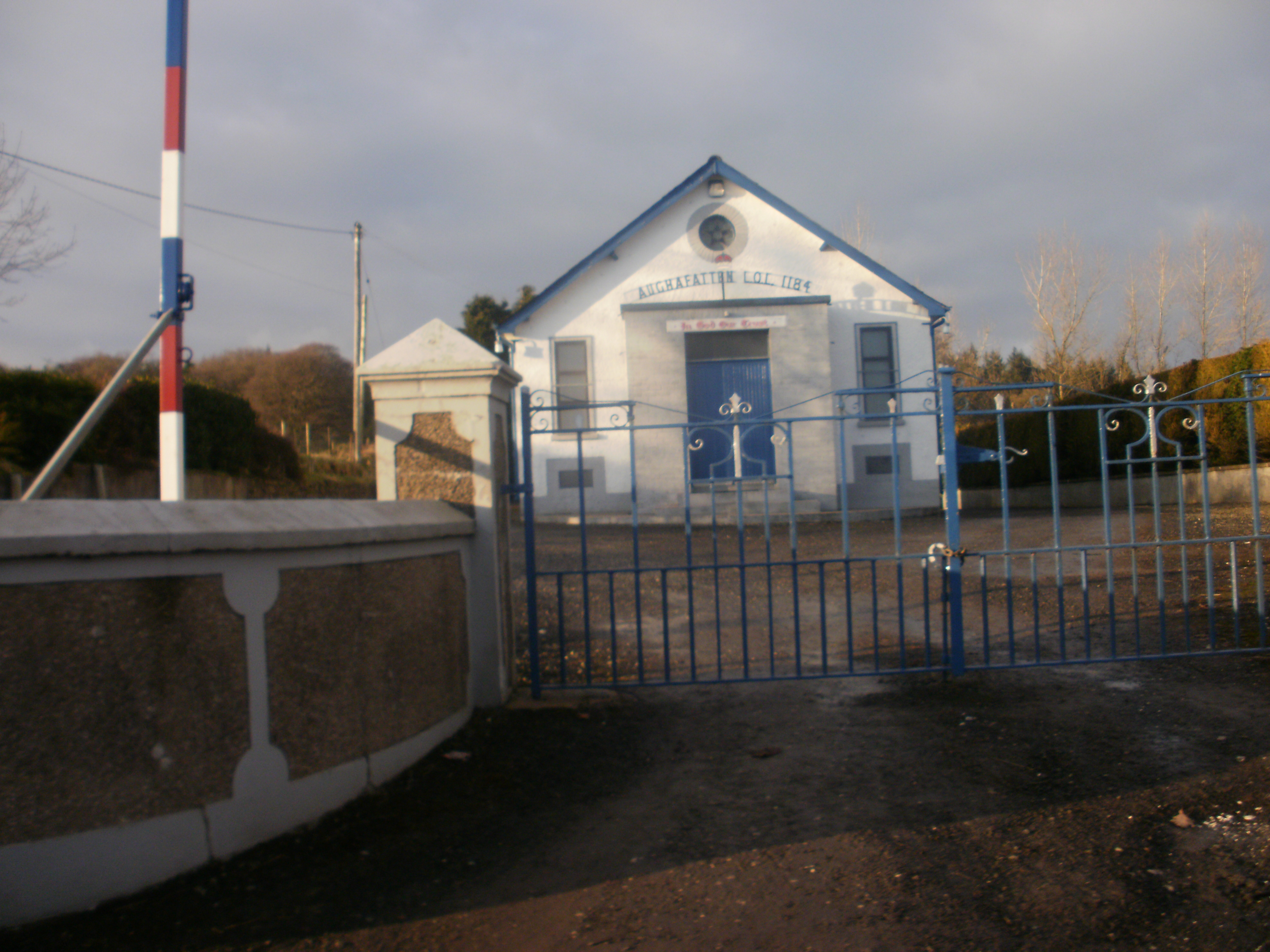 Aughafatten Orange Hall.Located on the Carnlough Road.